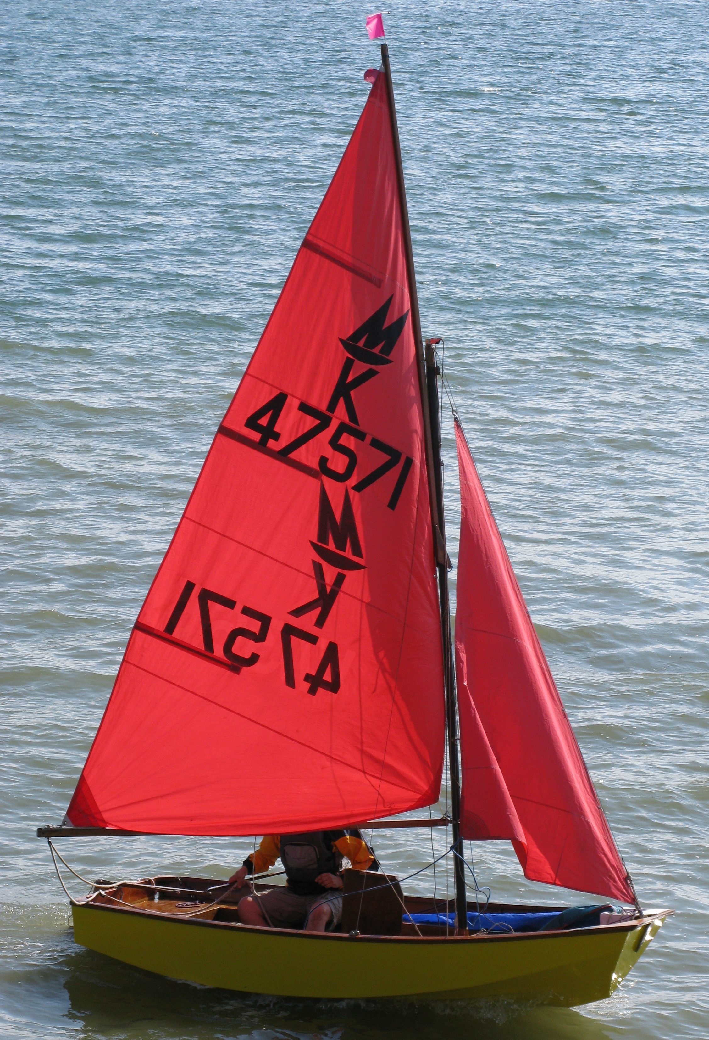 Mirror sailing dinghy